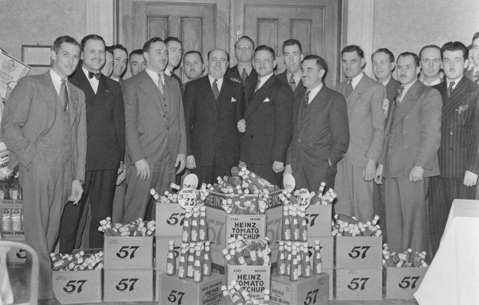 We see employees of the company to the Heinz Ketchup Heinz bottle crates. The conference was held at the Mount Royal Hotel, located at the corner of Peel and Sainte-Catherine Street West in Montreal.